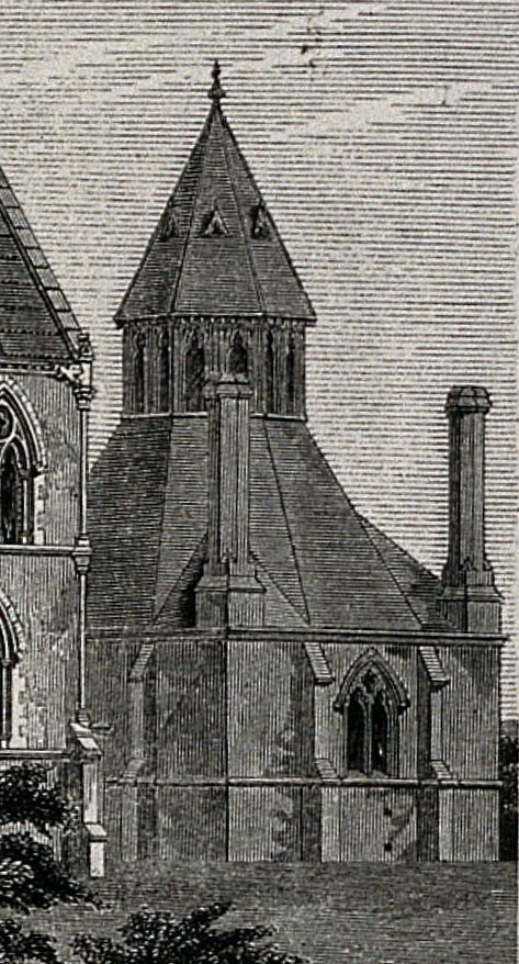 Detail of V0014197 University Museum, Oxford: proposed sketch. Wood engraving. Abbot's Kitchen, Oxford, England. Credit: Wellcome Library, London. Wellcome Images University Museum, Oxford: proposed sketch. Wood engraving by W. E. Hodgkin, 1855, after B. Sly, after Deane and Woodward. 1855 By: Benjamin Sly and Deane and Woodward. After: W. E. Hodgkin. Published: 7 July 1855. Copyrighted work available under Creative Commons Attribution only licence CC BY 4.0